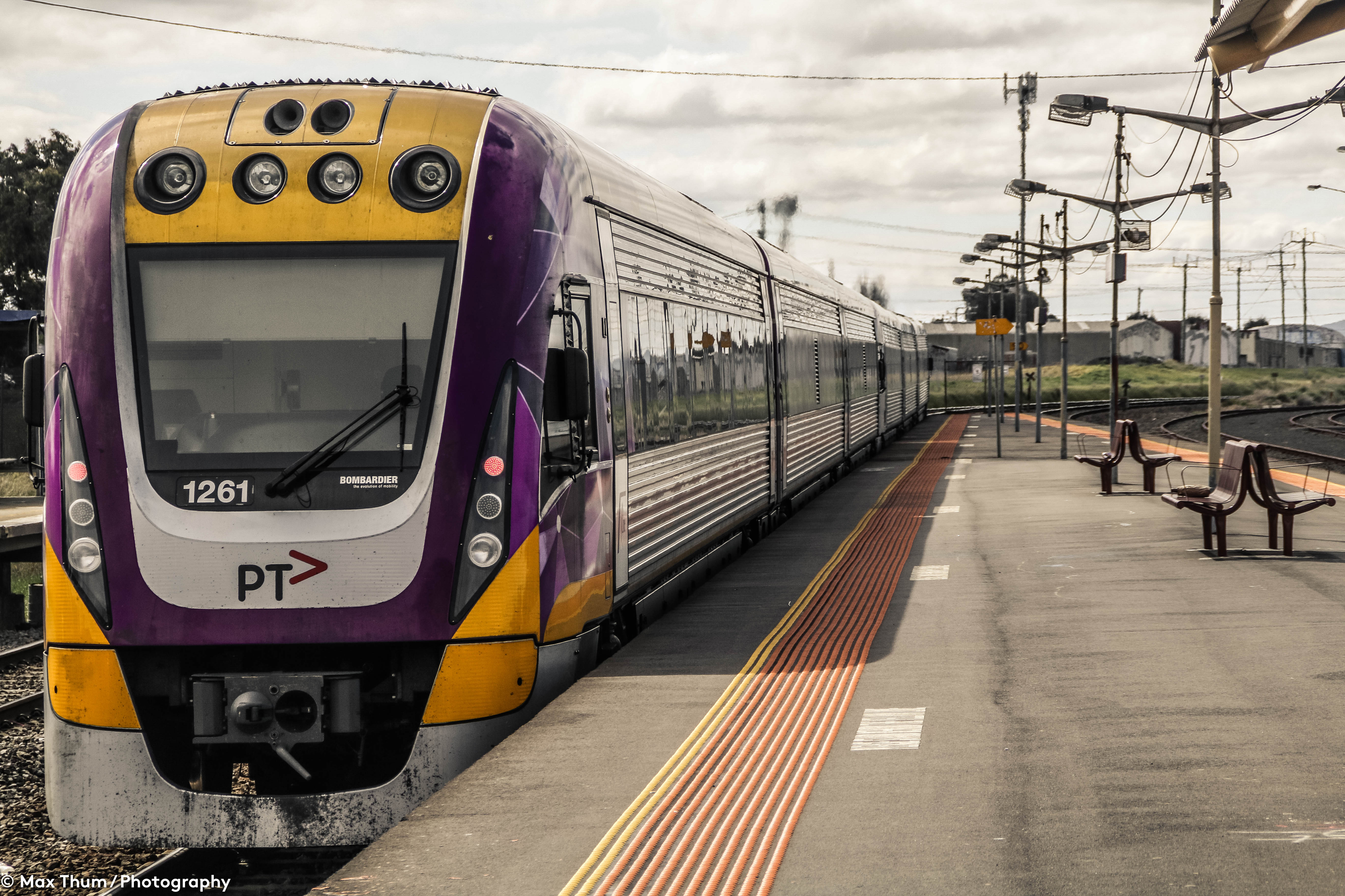 V/Line Vlocity VL61 at North Shore bound for Melbourne